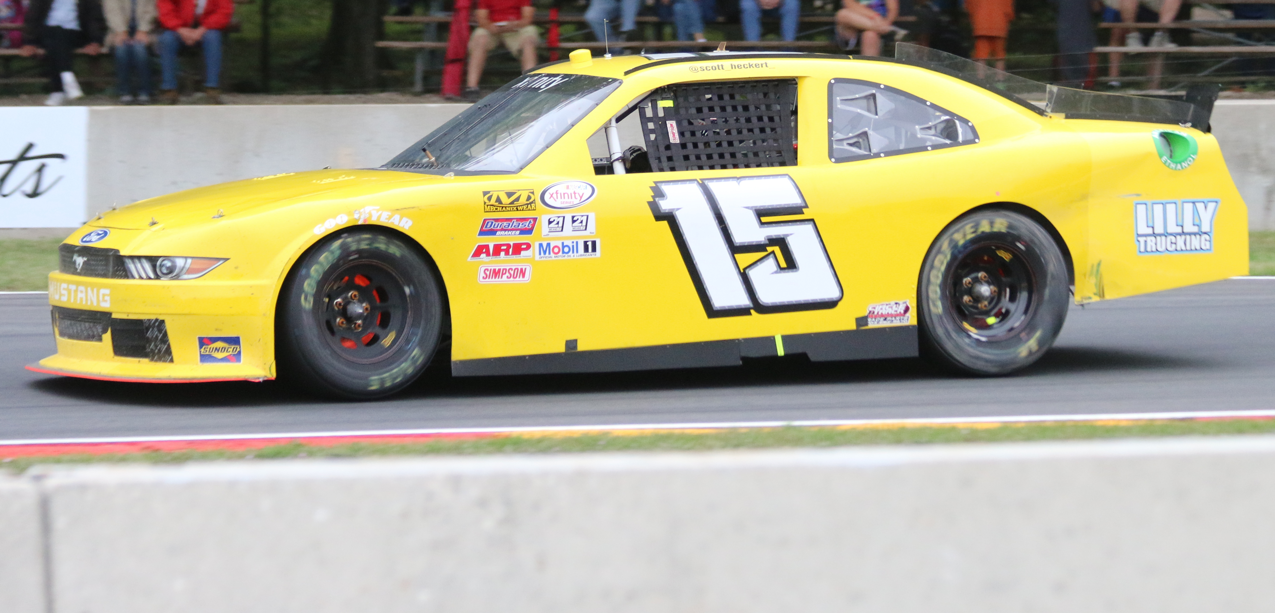 The Ford Mustang of Scott Heckert at the NASCAR Xfinity Series Road America 180.